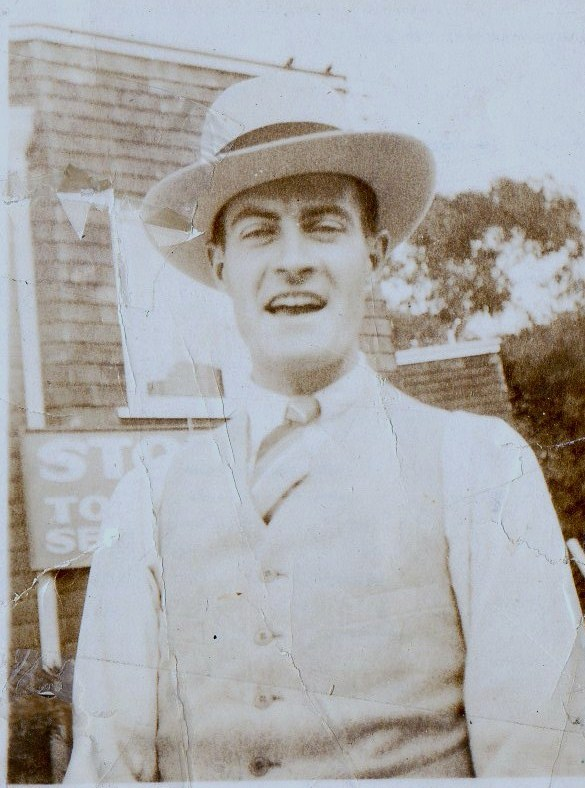 Frank Griffin in 1927 wearing a hat